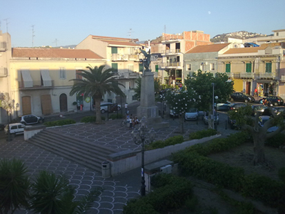 Monument to the Fallen Soldiers of the First and Second World War (Spadafora).